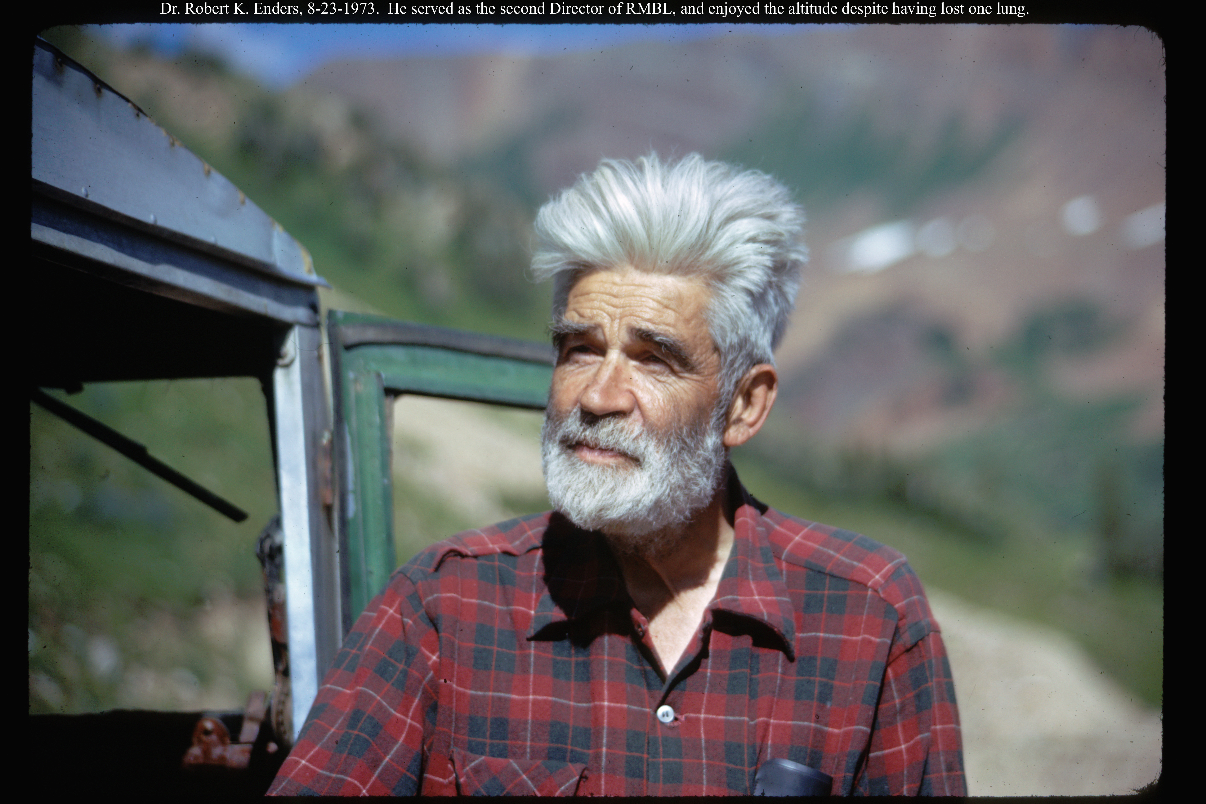 Dr. Robert K. Enders, 1973. He served as the second director of RMBL and enjoyed the altitude despite having lost one lung.